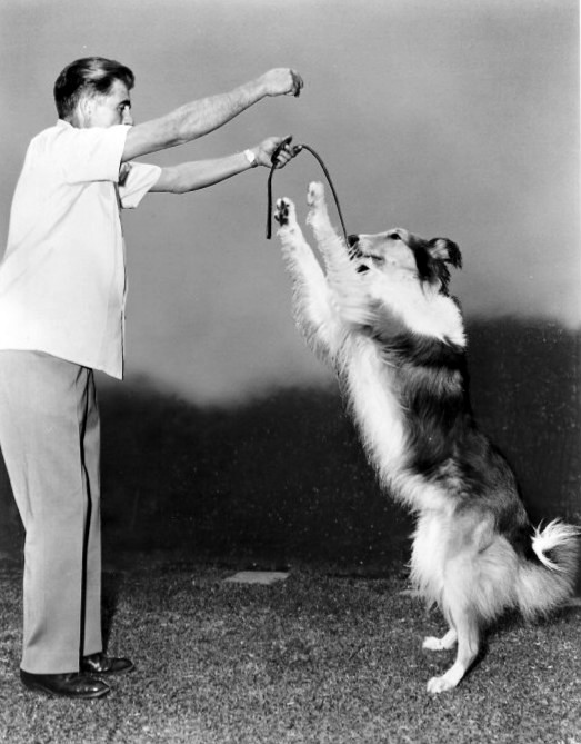 Photo of owner-trainer Rudd Weatherwax showing how he trains Lassie.